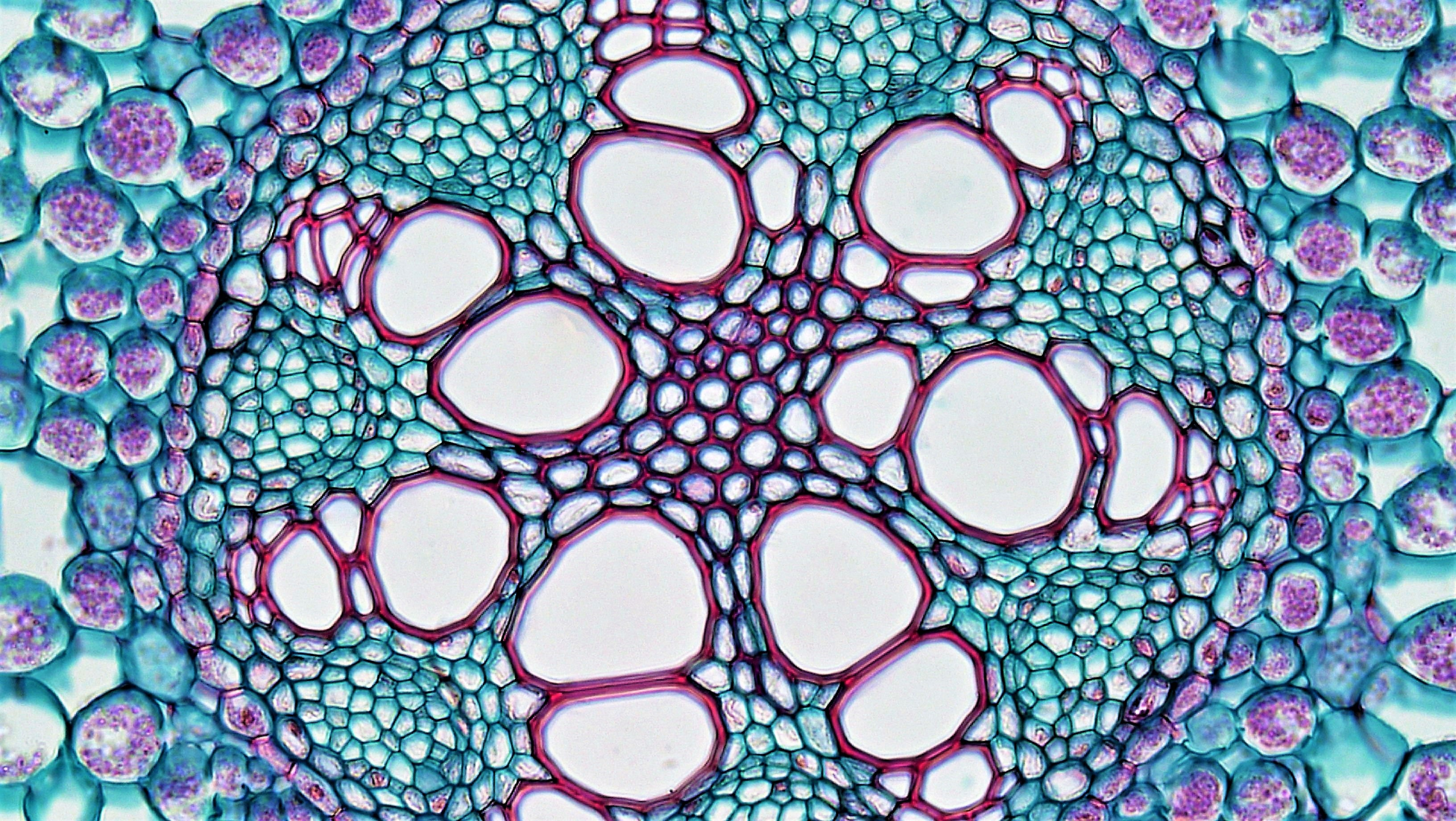 cross section: Acorus root common name: Sweet Flag magnification: 400x Berkshire Community College Bioscience Image Library The cortex is well-developed and divided into two zones; an outer narrow layer of closely packed smaller parenchyma cells and a wide inner layer of open larger aerenchyma cells. The inmost area of the cortex is bounded by an endodermis or starch sheath with larger barrel shaped cells and thickened walls that mark the casparian strip. Within the endodermis occasional small passage cells serve to transport water into the stele or vascular bundle. The stele is bound in a pericycle of single layered thin walled parenchyma cells. A single central vascular bundle contains radiating arms of xylem and phloem. The xylem is exarch: meaning the earlier smaller protoxylem is found towards the periphery and younger larger metaxylem to the center of the stem. Phloem tissues of seive tubes, companion cells and phloem parenchyma are also exarch. The older protophloem is found towards the periphery and metaphloem towards the center of the stem. Supportive sclerenchyma tissues and phloem caps are notably absent in most monocot stems. Vascular cambium is also absent, preventing secondary growth of the root. The central region of the stele is occupied by thin walled starch containing aerenchyma cells.